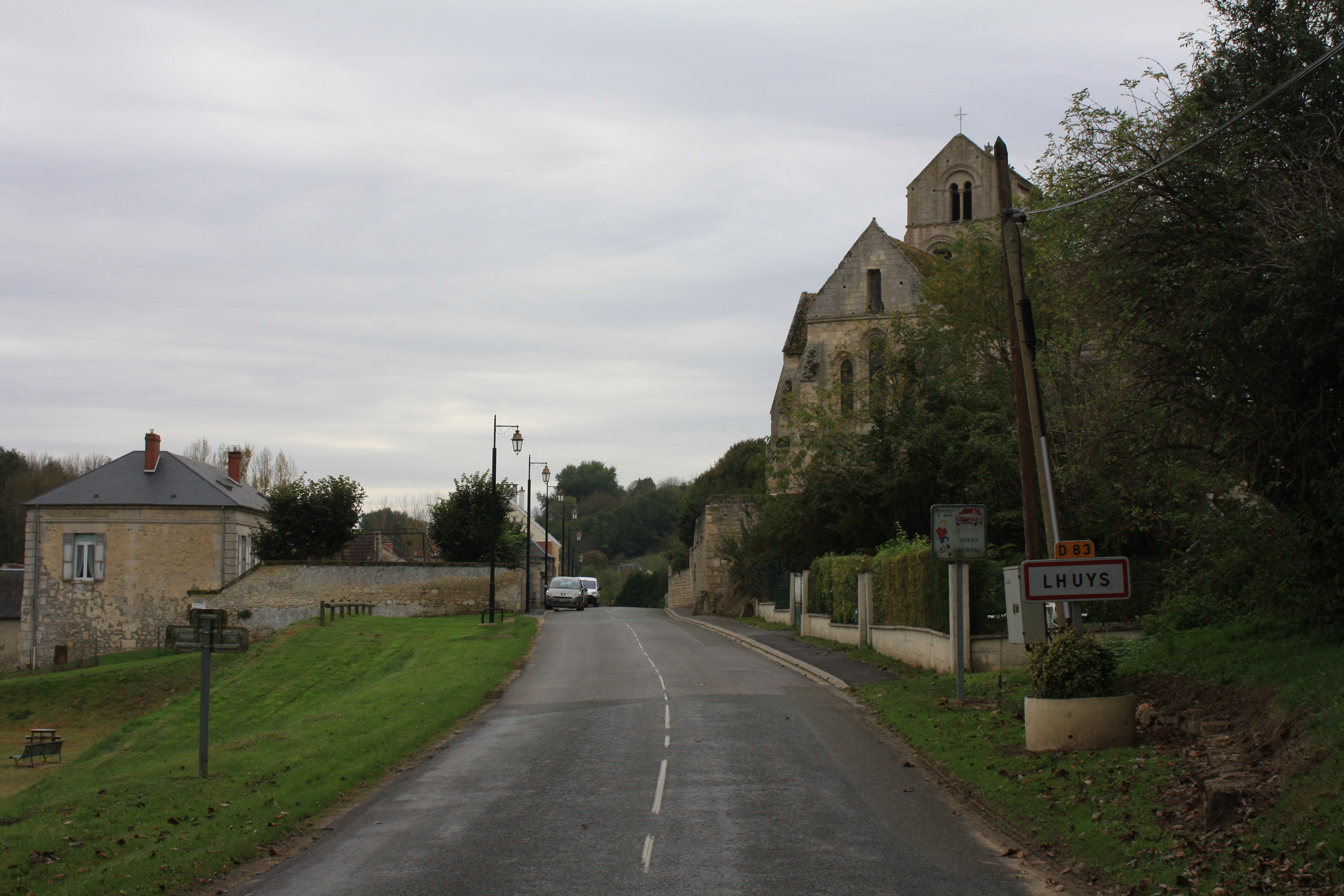 Village de Luys